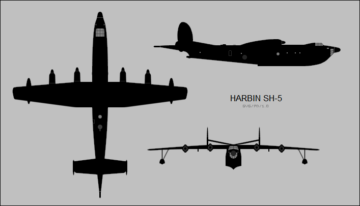 3-view silhouettes of the Harbin SH-5 flying boat